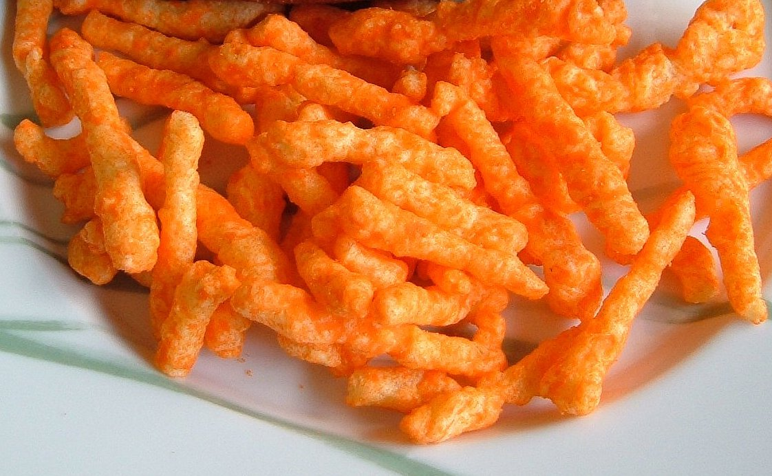 Cropped by: Fourohfour, to remove irrelevant/distracting sandwich.